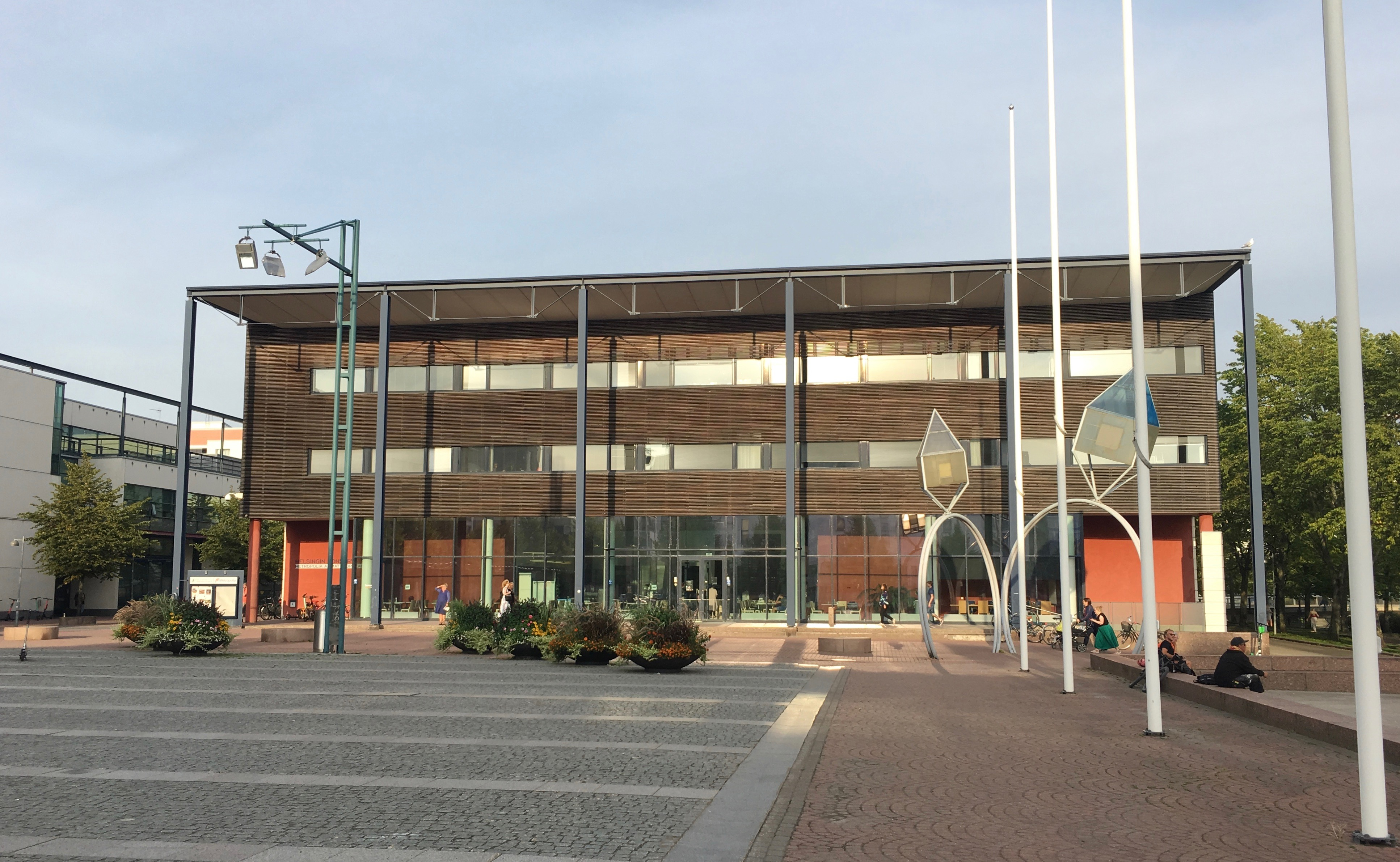 The building of the Helsinki Conservatory of Music in Ruoholahti, Helsinki, Finland.